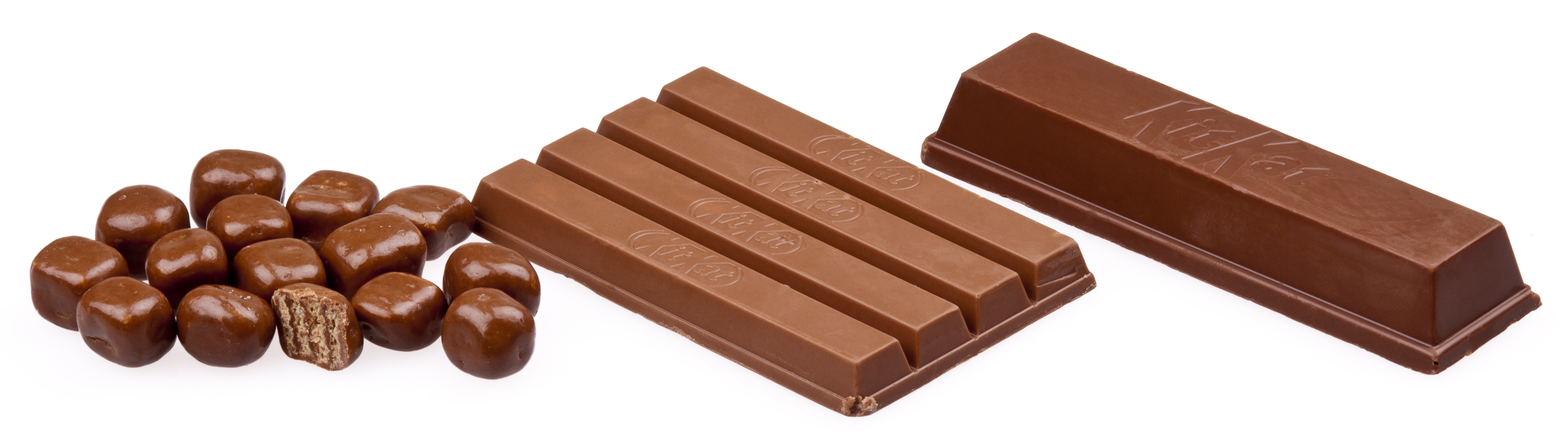 A selection of Kit Kat types, from left: Kit Kat Pop Choc (UK), Kit Kats (US), and a Big Kat (US).